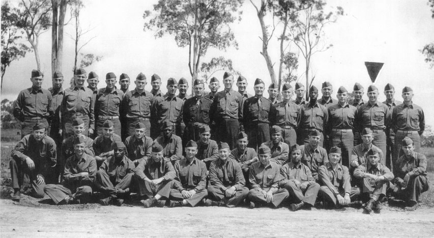 First Training Company of the Officer Candidate School at Camp Columbia. This class graduated in September 1944.